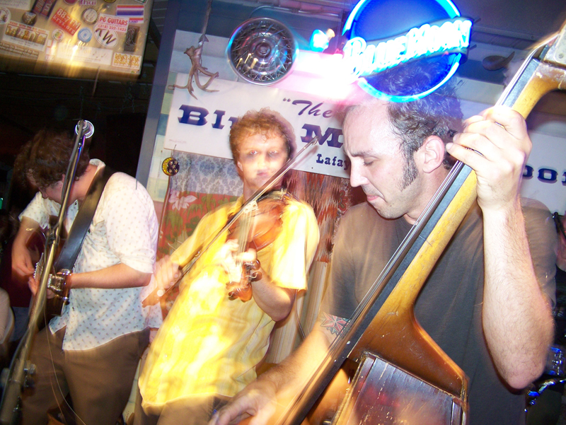 Lost Bayou Ramblers playing at the Blue Moon Saloon in Lafayette, Louisiana on April 27, 2008.